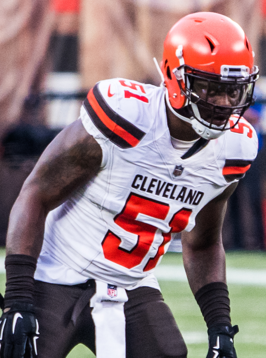 Myles Garrett, Jamie Collins, and Joe Shcobert